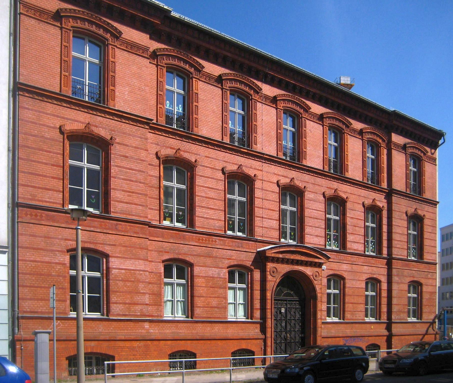 Teacher residence of the former Humboldt-Gymnasium at Gartenstraße No. 25 in Berlin-Mitte. It was built in 1875 to a design by Philipp Jacobsthal. The house has been dedicated as a historic landmark.